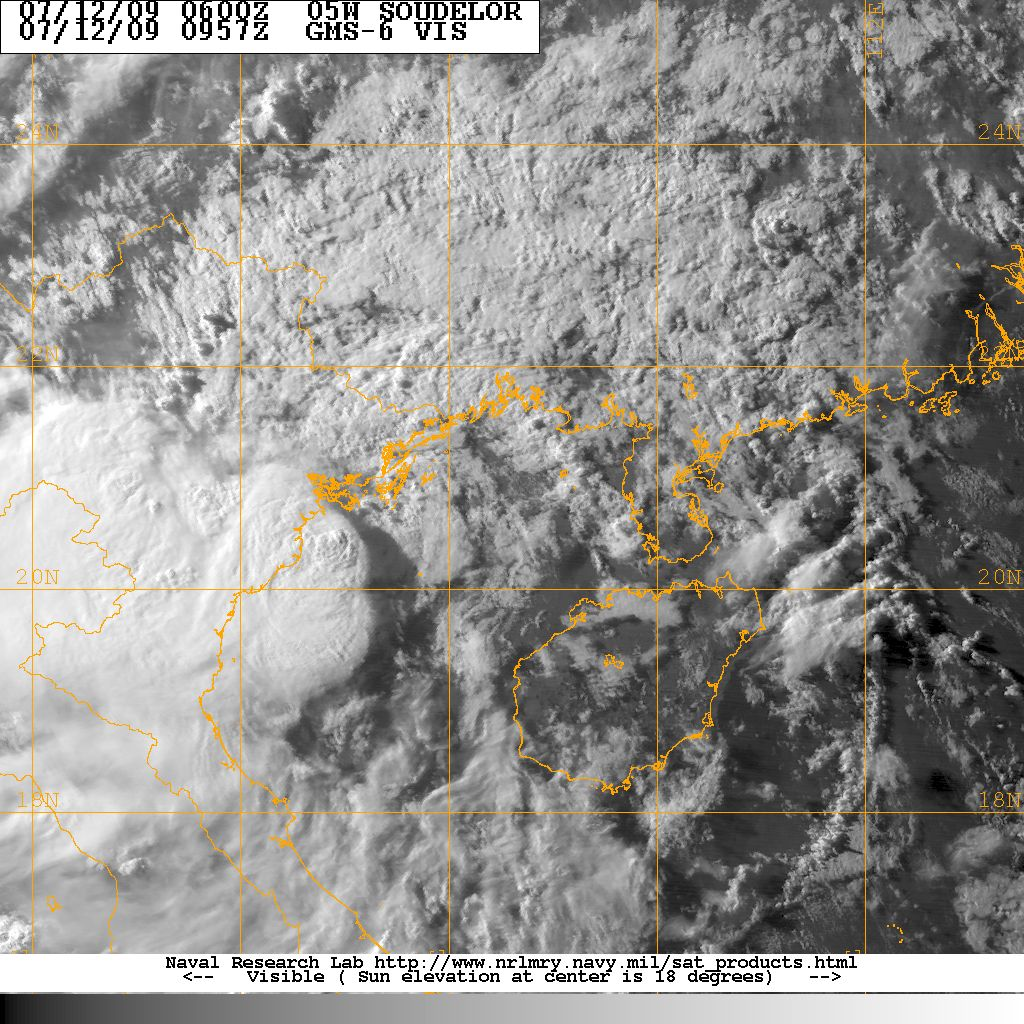 Tropical Depression Soudelor overland